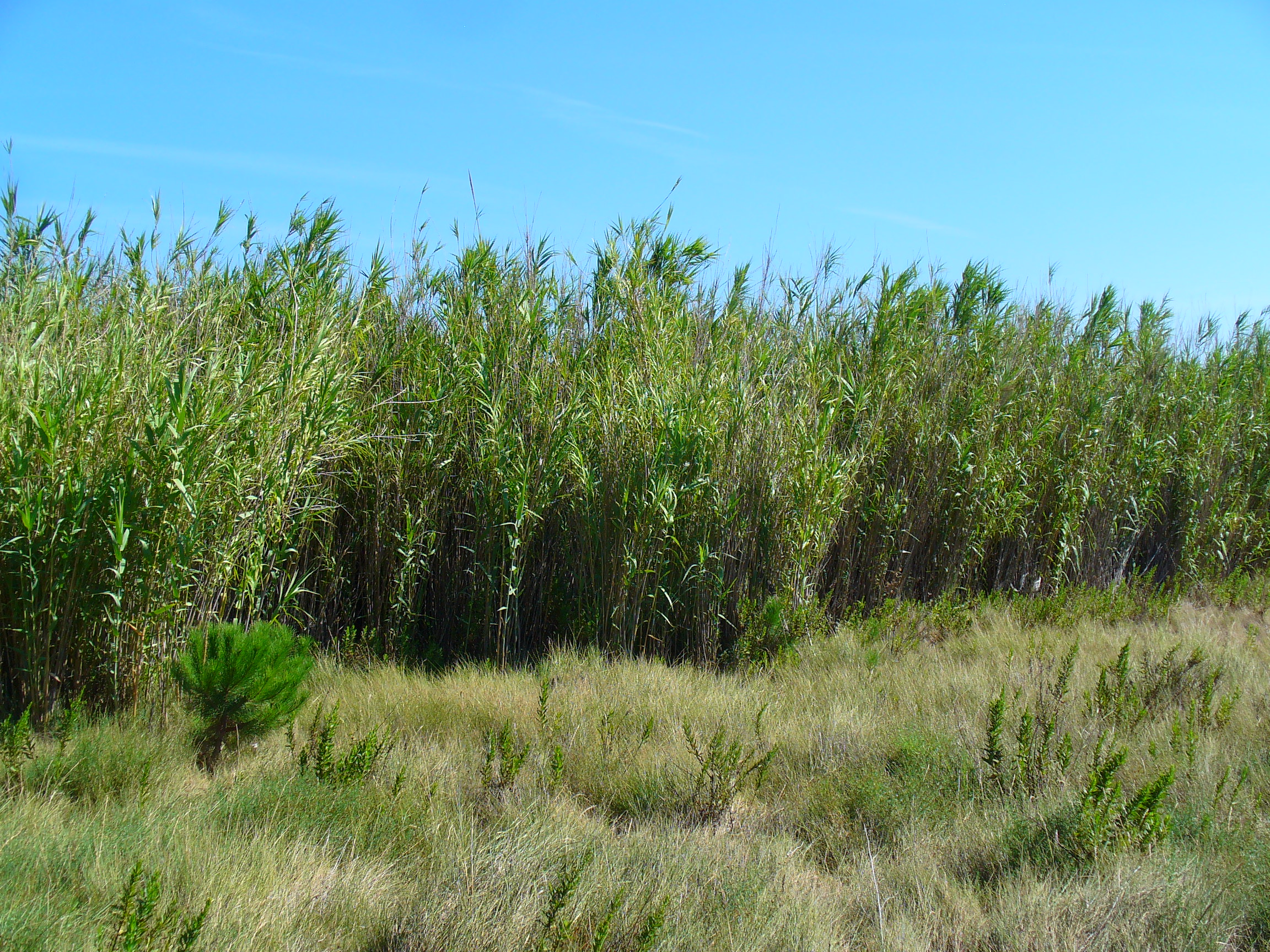 Arundo donax, Poaceae, Giant Cane, habitus; Gournes, Crete, Greece, Habitus. The roots are used in homeopathy as remedy: Arundo mauretanica (Arund-d.)